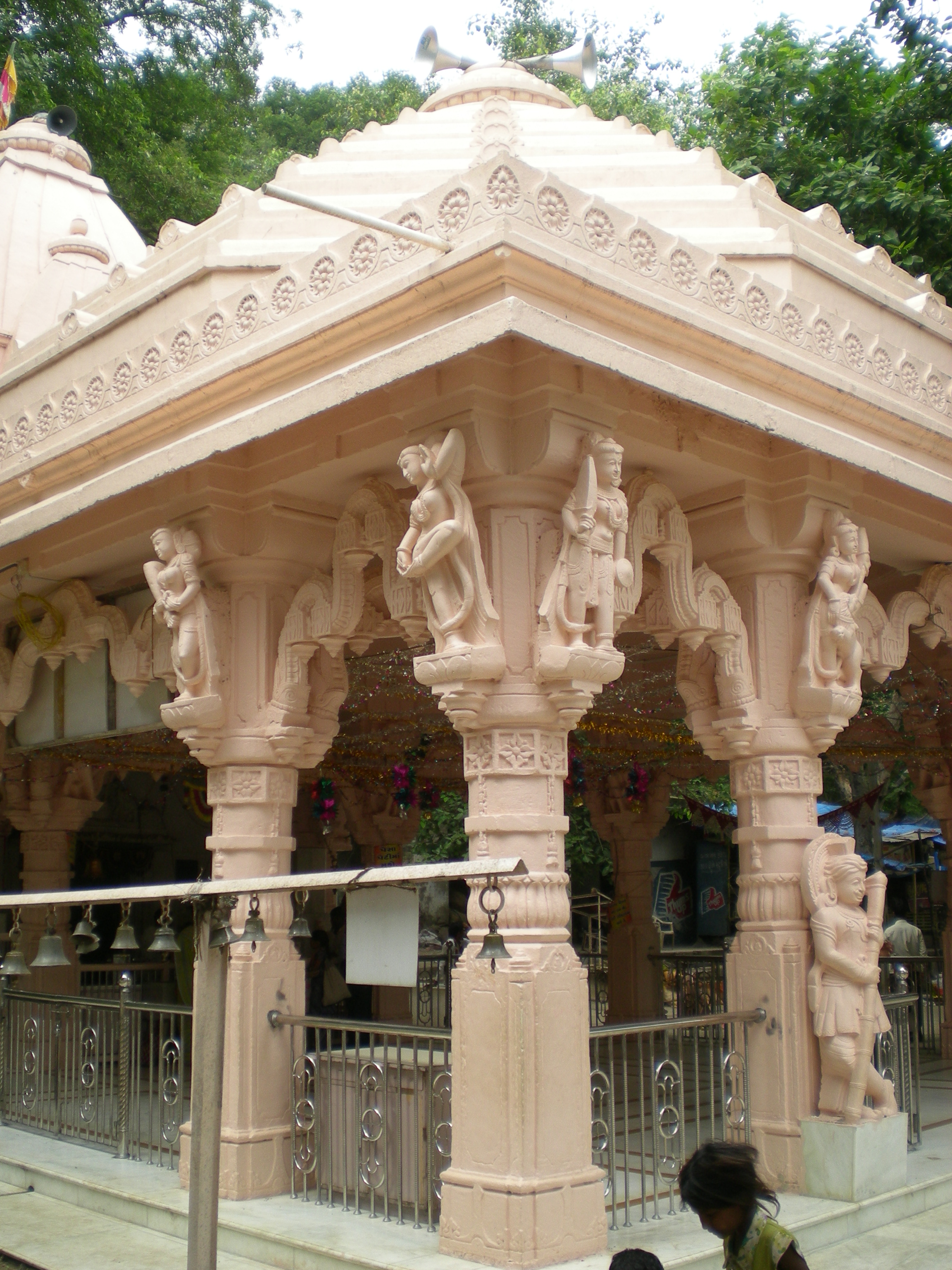 Balaram Mahadev temple at Balaram, Banaskantha, Gujarat, India.